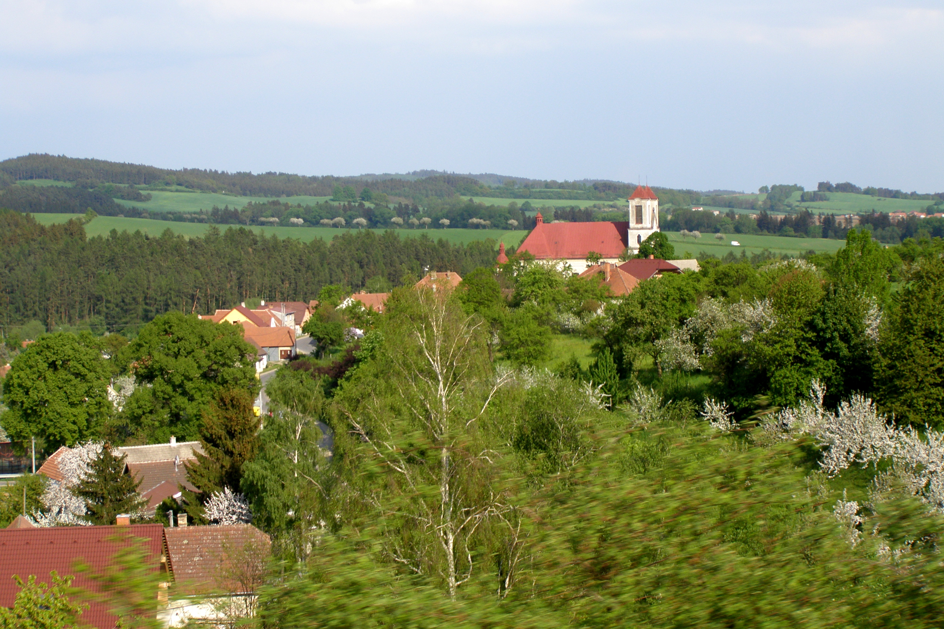 Přibyslavice village. View to the Nativity of Our Lady church